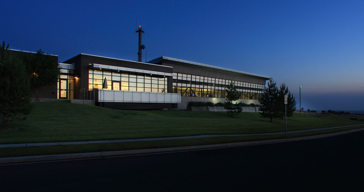 Picture showing the east side of the Salt lake Valley Emergency Communications Center, showing the Operations side of the building